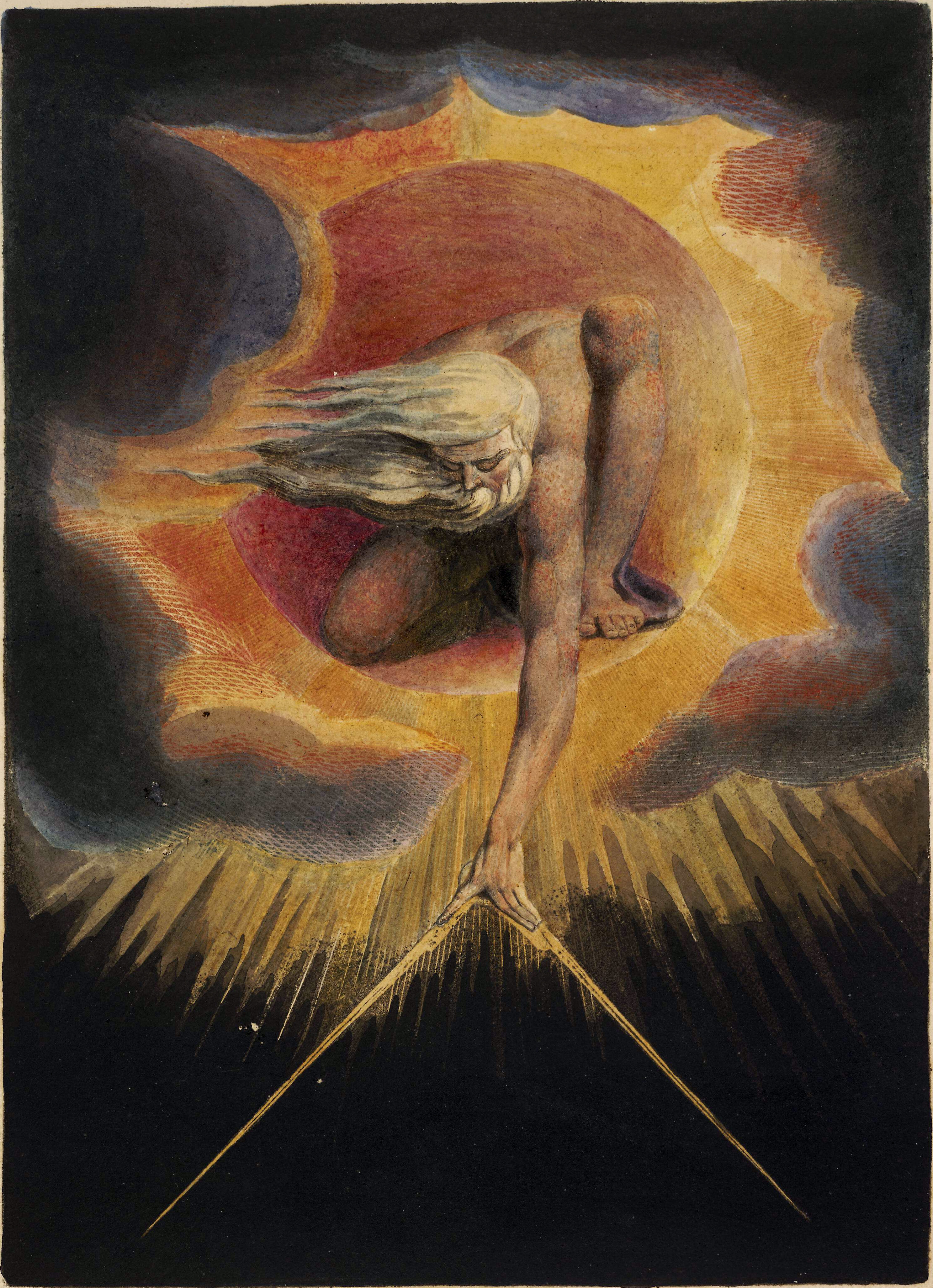 Europe a Prophecy (Copy D, Object 1; Bentley 1, Erdman I, Keynes I; Europe a Prophecy &mdash)